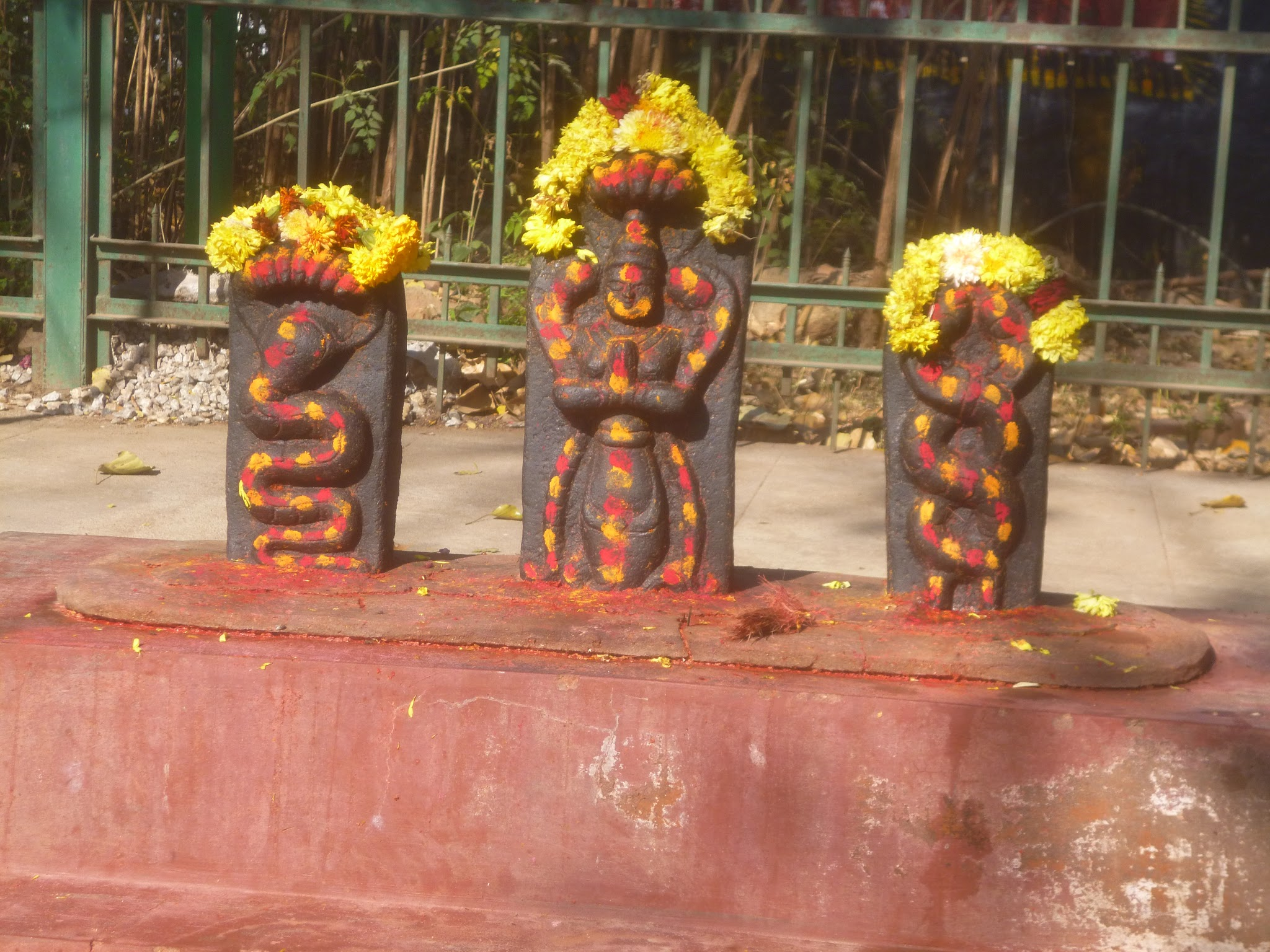 3 Spritual Idols of Godess nagamma